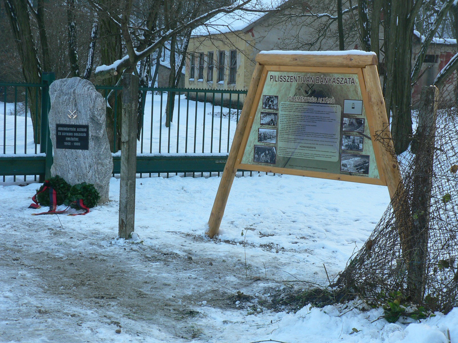 A Jóreménység-altáró emlékhelye a 2010. decemberi avatása után